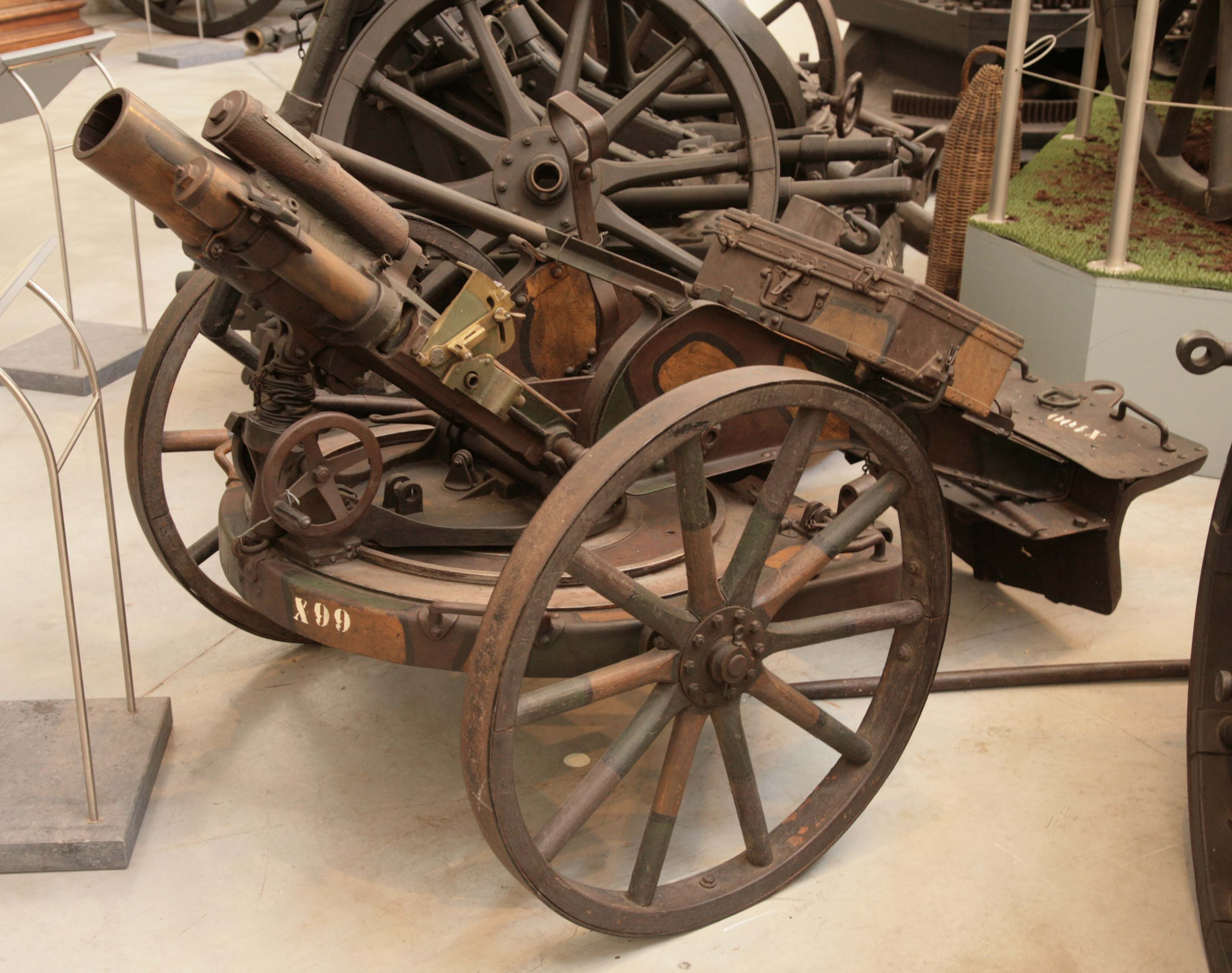 German 7.58cm lMW (leichter Minenwerfer) n.A. at the Brussels military museum. Trench mortar - as used in the First World War.